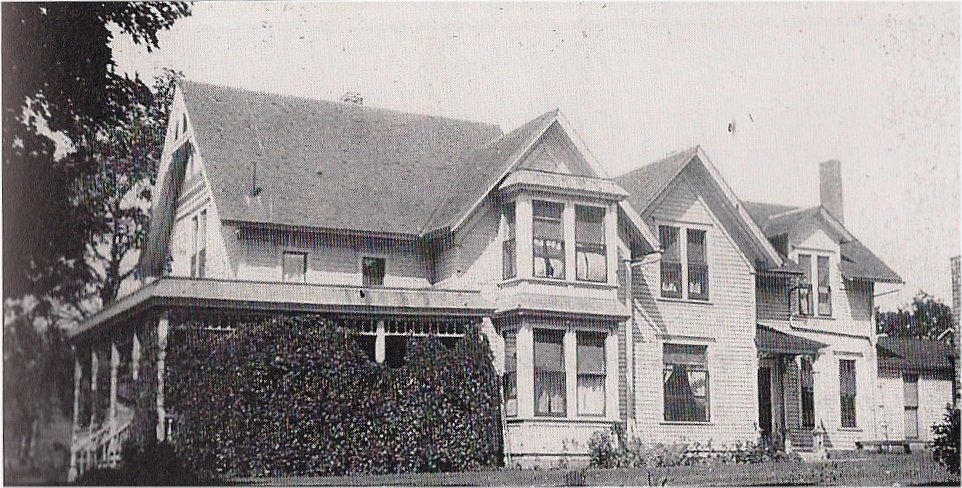 Justus Smith Stearns 1896 house built originally by lumberman Lucius K. Baker in 1883